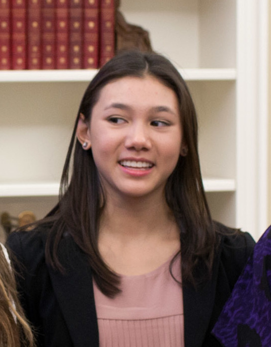 President Barack Obama talks with members of the 2012 U.S. Olympic gymnastics teams in the Oval Office, Nov. 15, 2012. Pictured, from left, are: Steven Gluckstein, Savannah Vinsant, Aly Raisman, Gabby Douglas, Steve Penny, USA Gymnastics President, McKayla Maroney, Kyla Ross, and Jordyn Wieber. (Official White House Photo by Pete Souza)